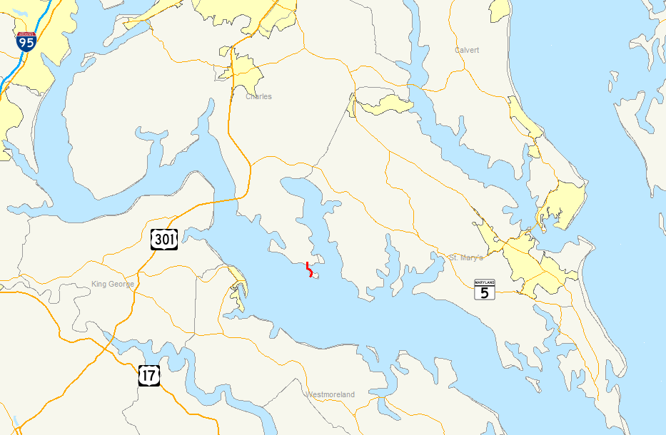 Map of Maryland Route 254